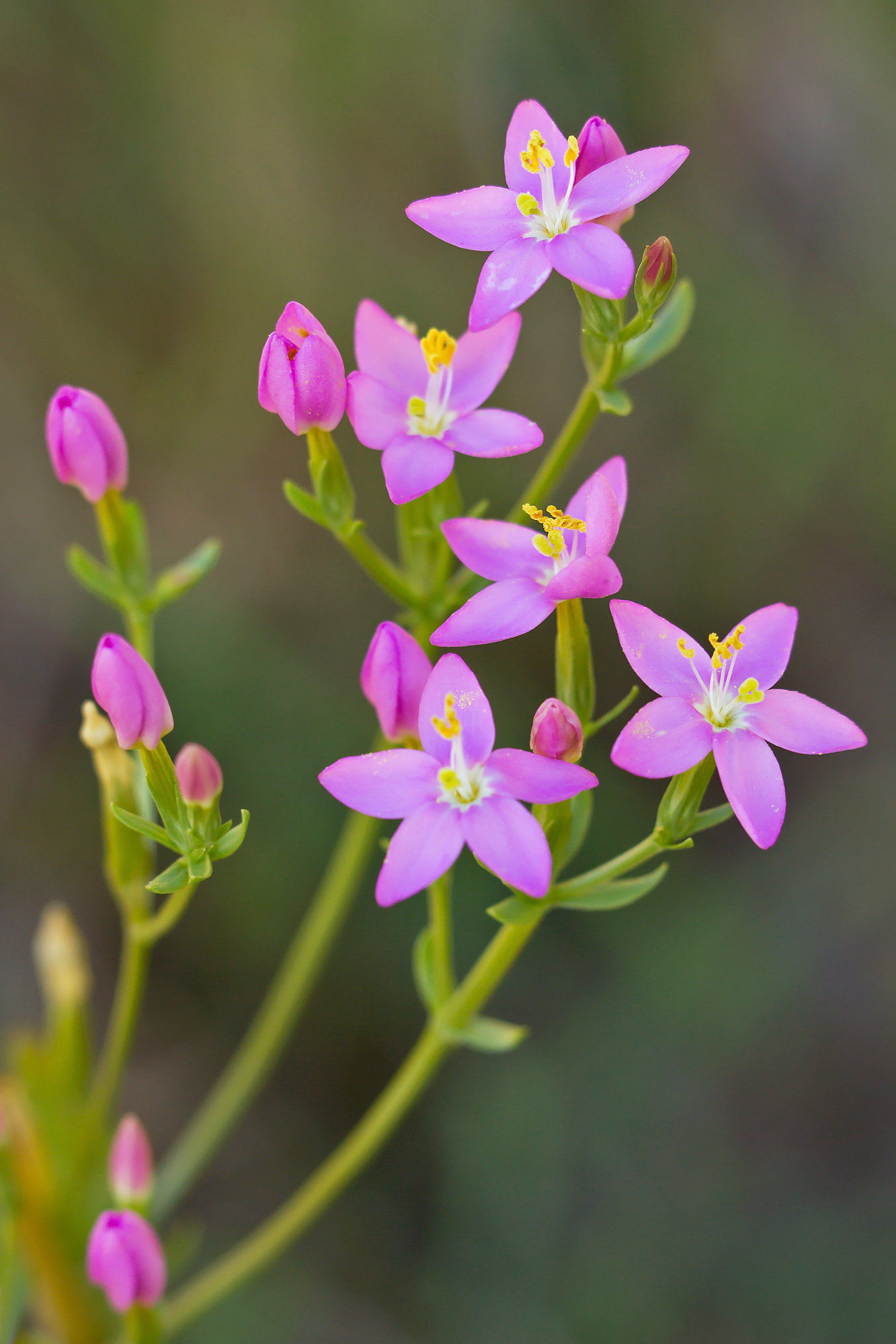 Inflorescence of Common Centaury, Centaurium erythraea, with opened and still closed blossoms. Very late flowering time in mid October on a warm, sunny day (plant artificially shaded).